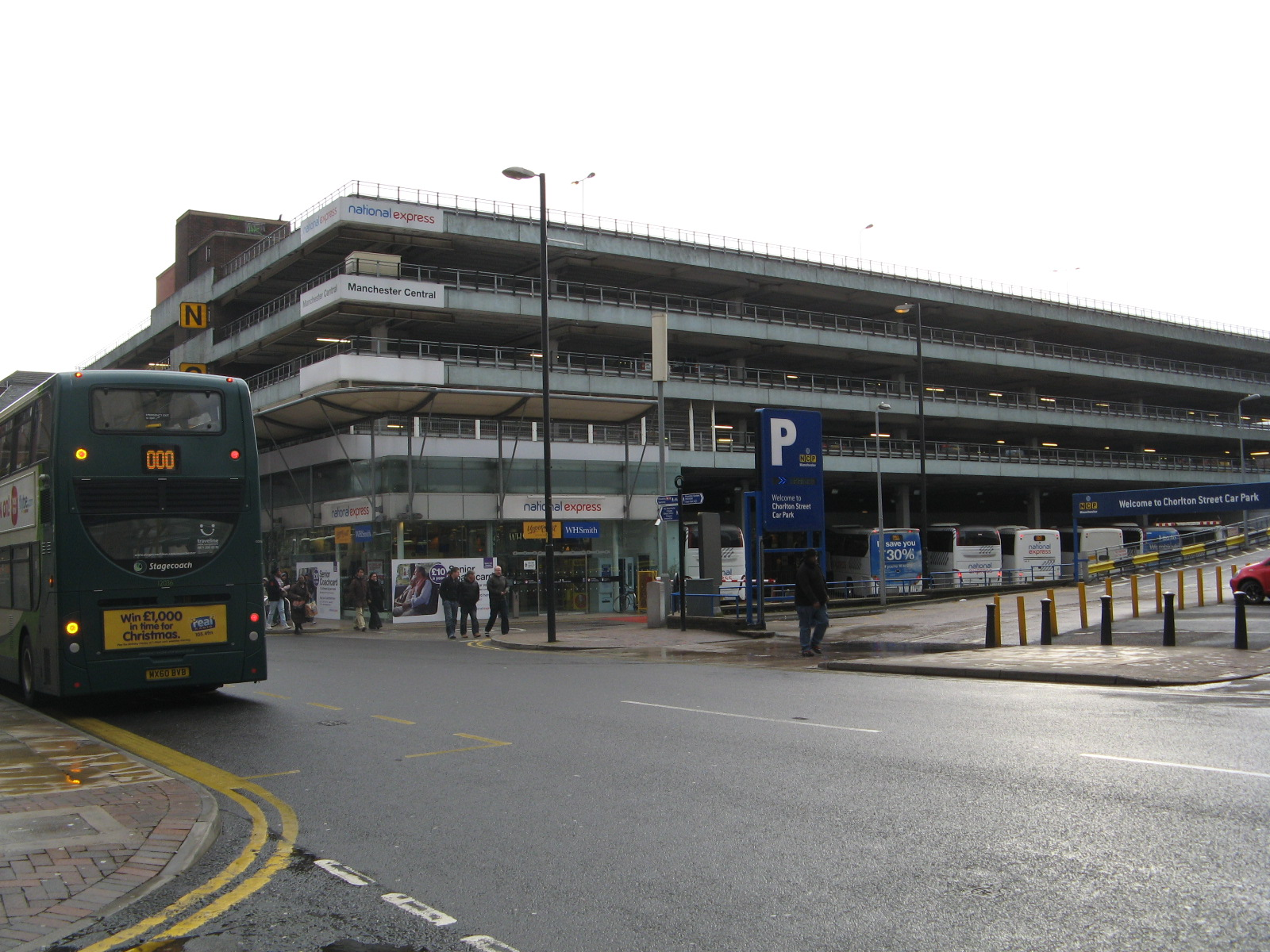 Manchester National Express Coach Station, Manchester, England